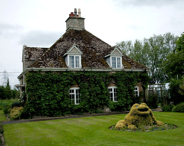 Lock keeper's topiary work. Rushey Lock on the River Thames